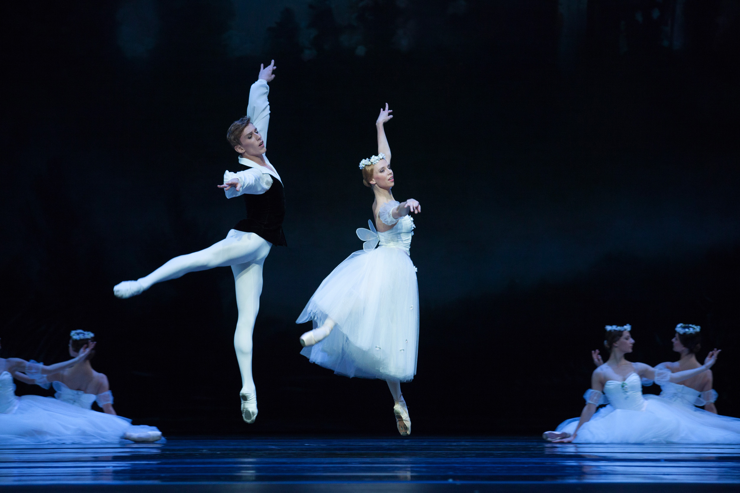 "Chopiniana" by Mikhail Fokine, Polish National Ballet, dancers: Dagmara Dryl & Dawid Trzensimiech